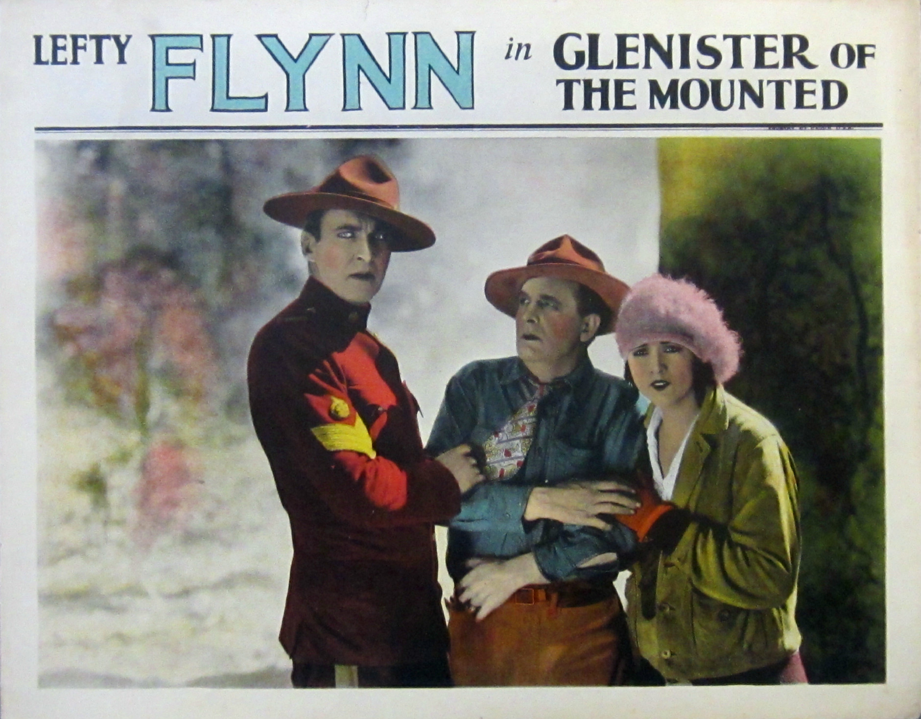 Lobby card for the American drama film Glenister of the Mounted (1927) with Maurice "Lefty" Flynn, Lee Shumway, and Bess Flowers.